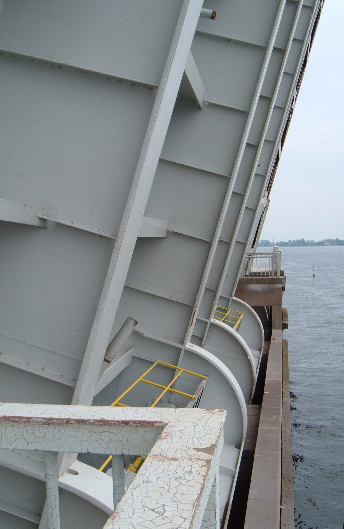 Frederick IX bridge at Nykobing Falster between the islands of Falster and Lolland in south Denmark. View under bascules in raised position. Yellow railings of gantry along underside of bascules may be seen tipped over. Also yellow driveshaft and gearbox which takes power from shaft to the back of the counterweights. The shaft is driven through the centre of the bascule bearings. Taken by contributor, July 2006.